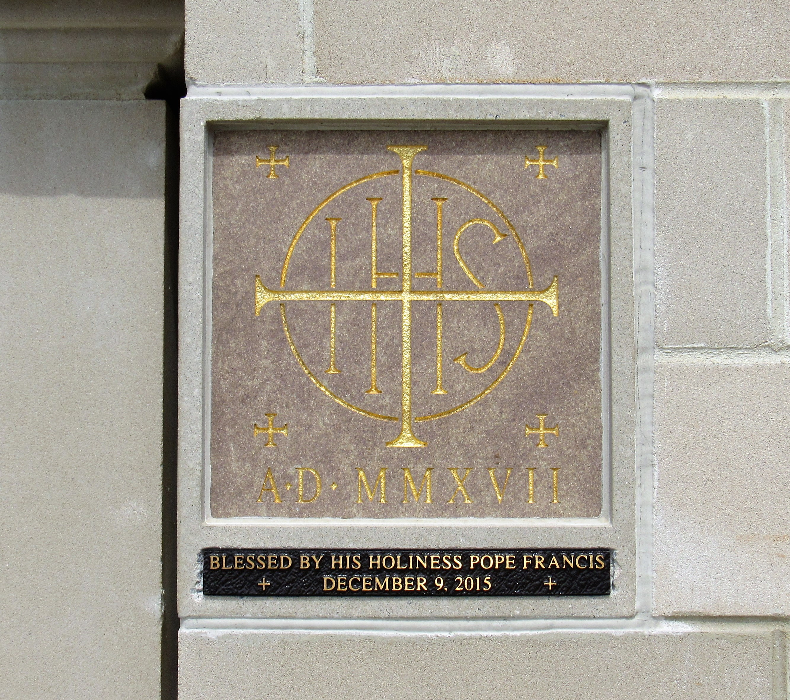 Holy Name of Jesus Cathedral in Raleigh, North Carolina.